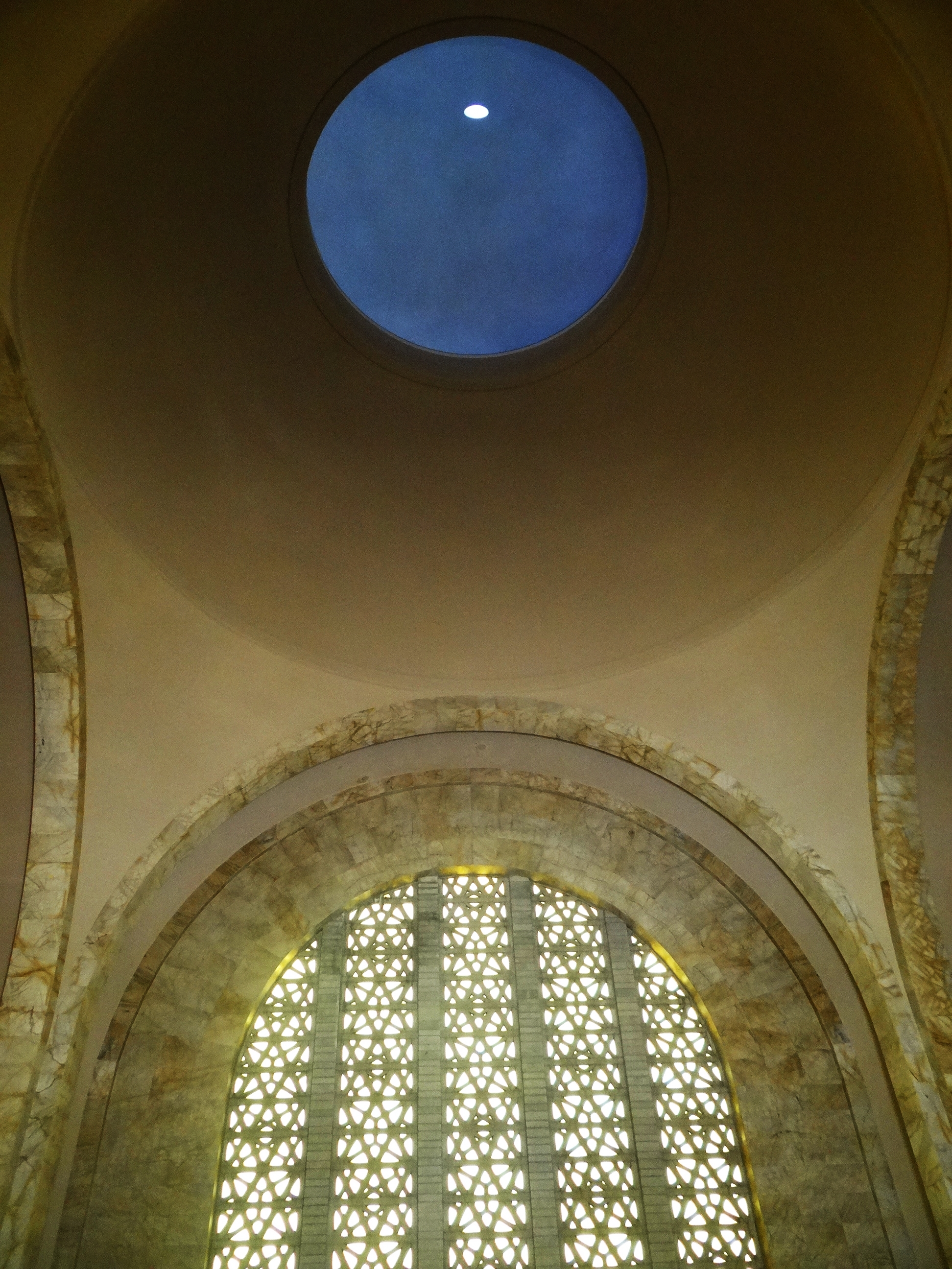 This media shows a South African Protected Site with SAHRA file reference 9/2/258/0097.